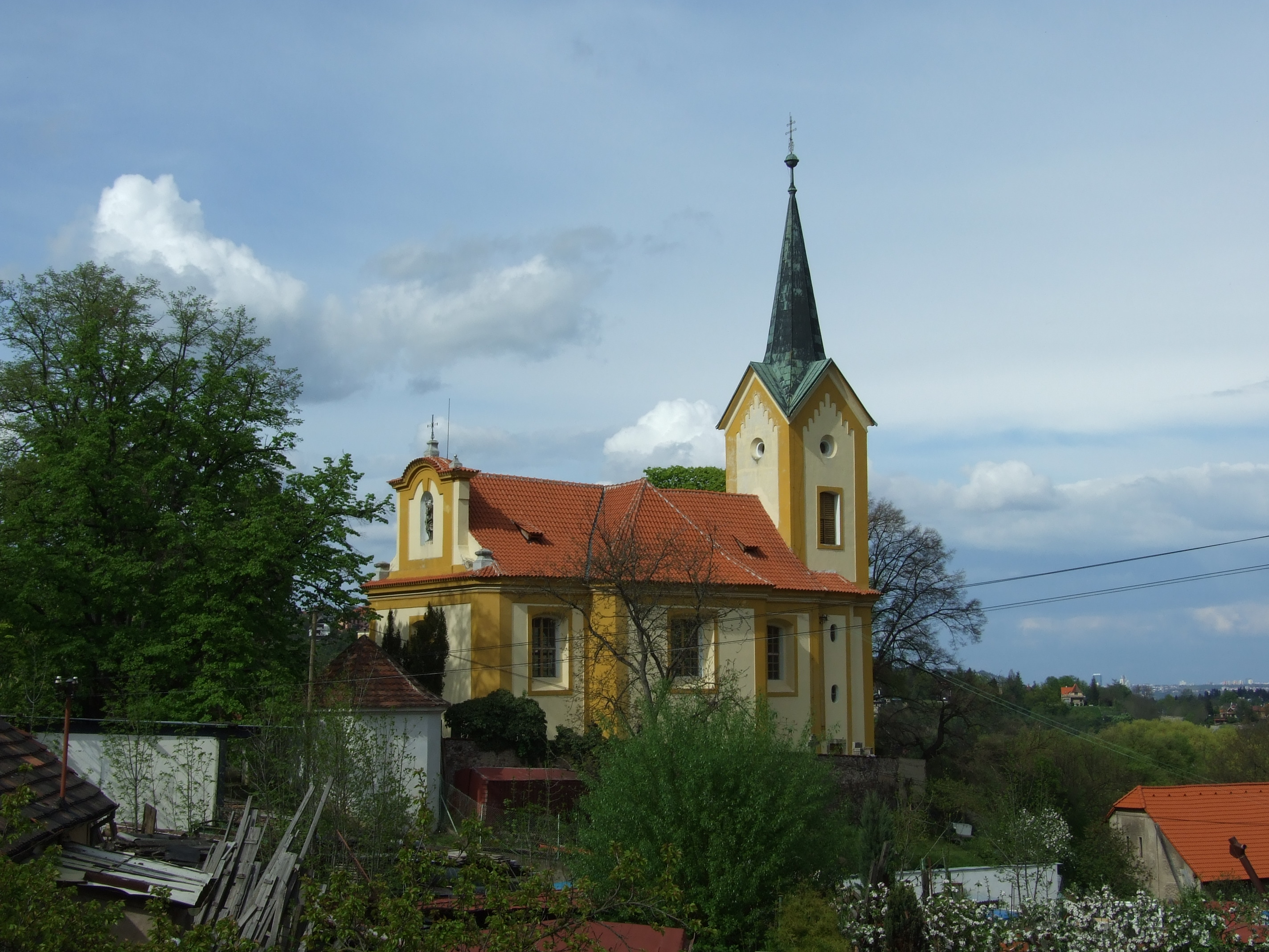 Všenory-Horní Mokropsy, Prague-West District, Central Bohemian Region, the Czech Republic. Saint Wenceslaus church.